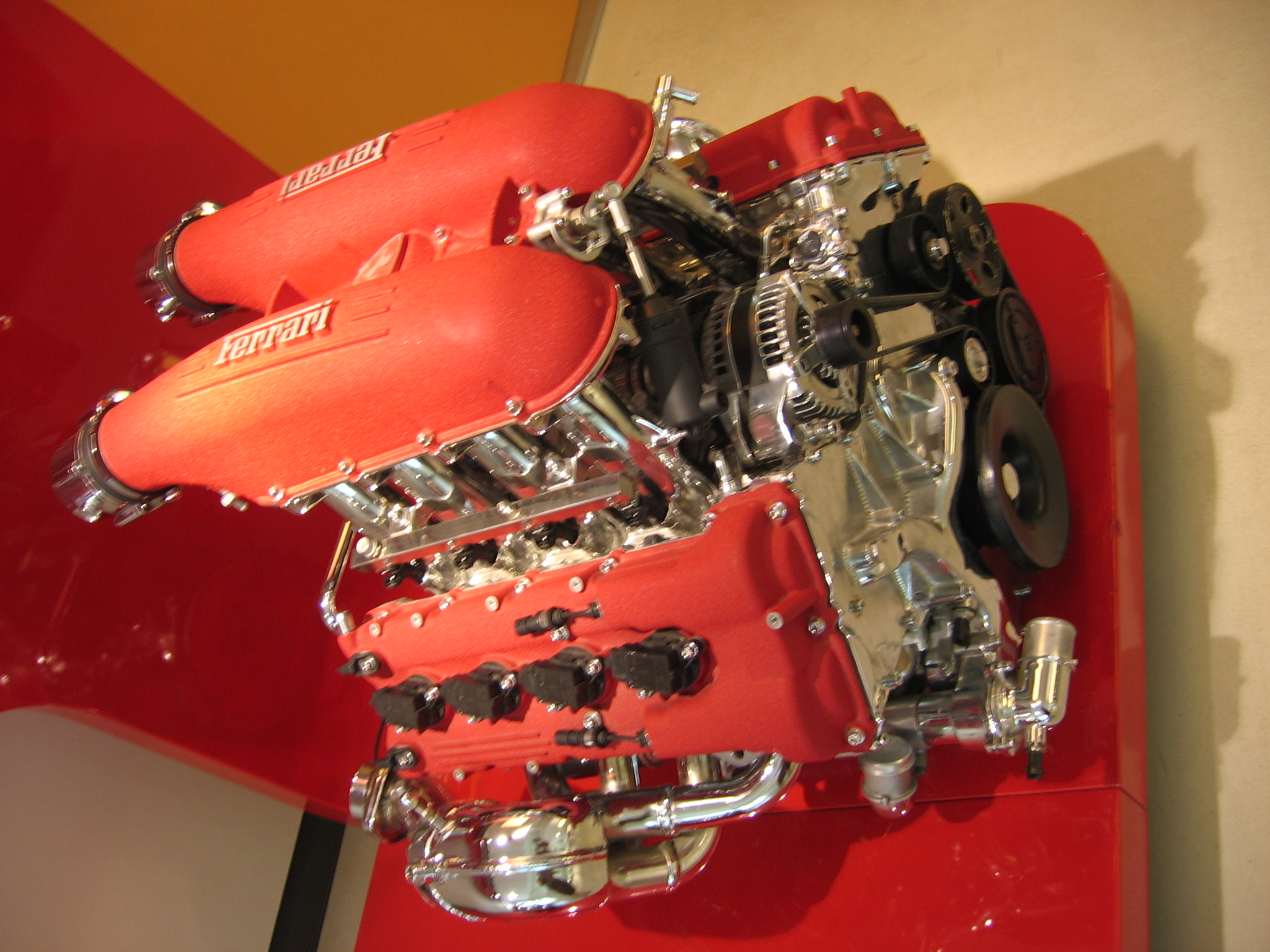 Ferrari's 4.3 liter V8 at the Galleria Ferrari